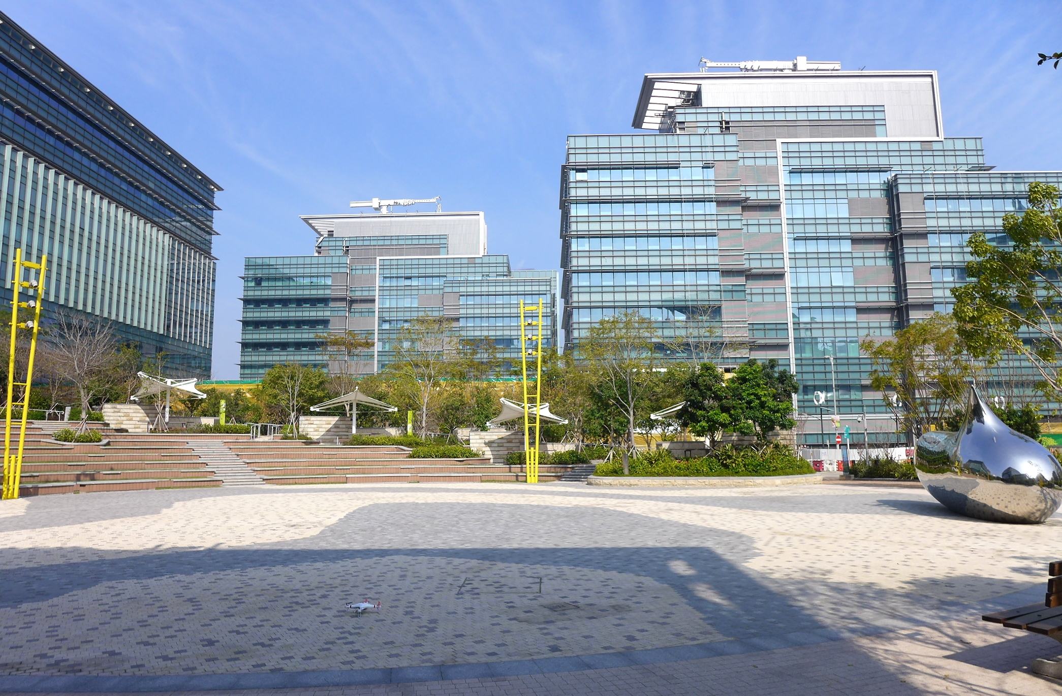 Hong Kong Science Park Phase 3